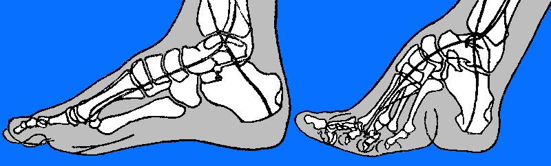 x-ray schema of normal and bound foot of Chinese women